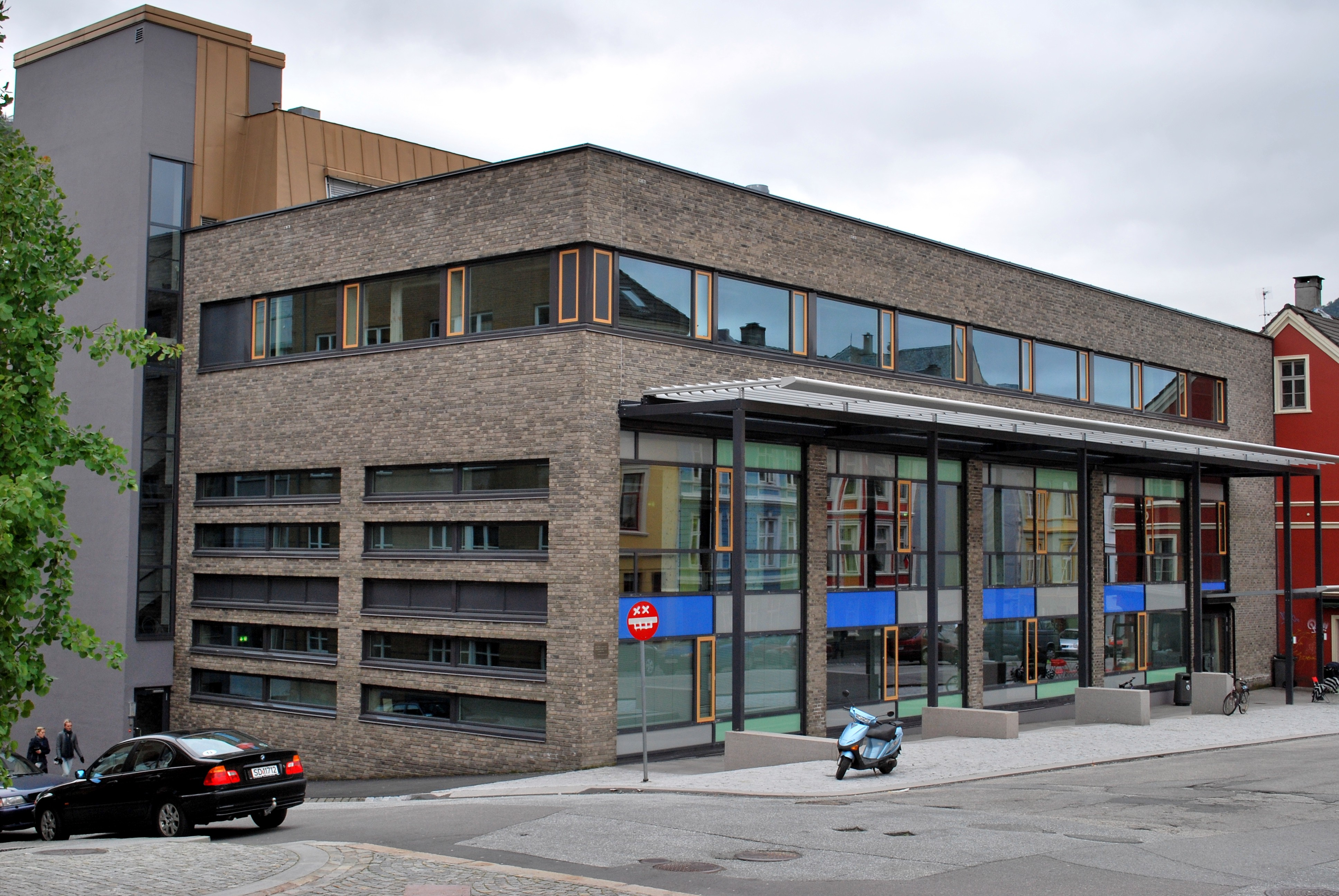 Social Sciences Library, Bibliotek for samfunnsvitenskap, University of Bergen. Street address: Fosswinckels gate 14 .